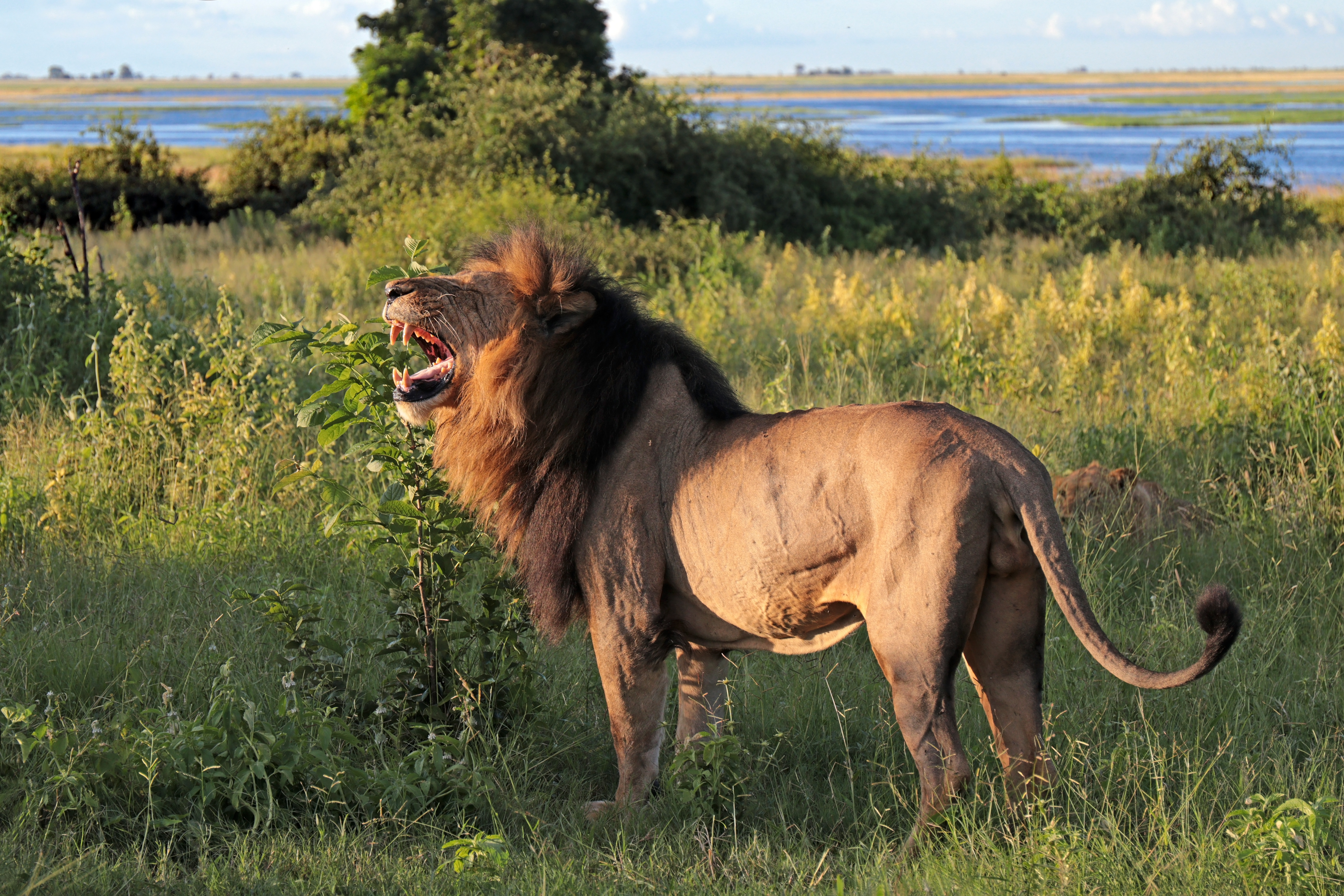 Lion (Panthera leo), male, Chobe National Park, Botswana